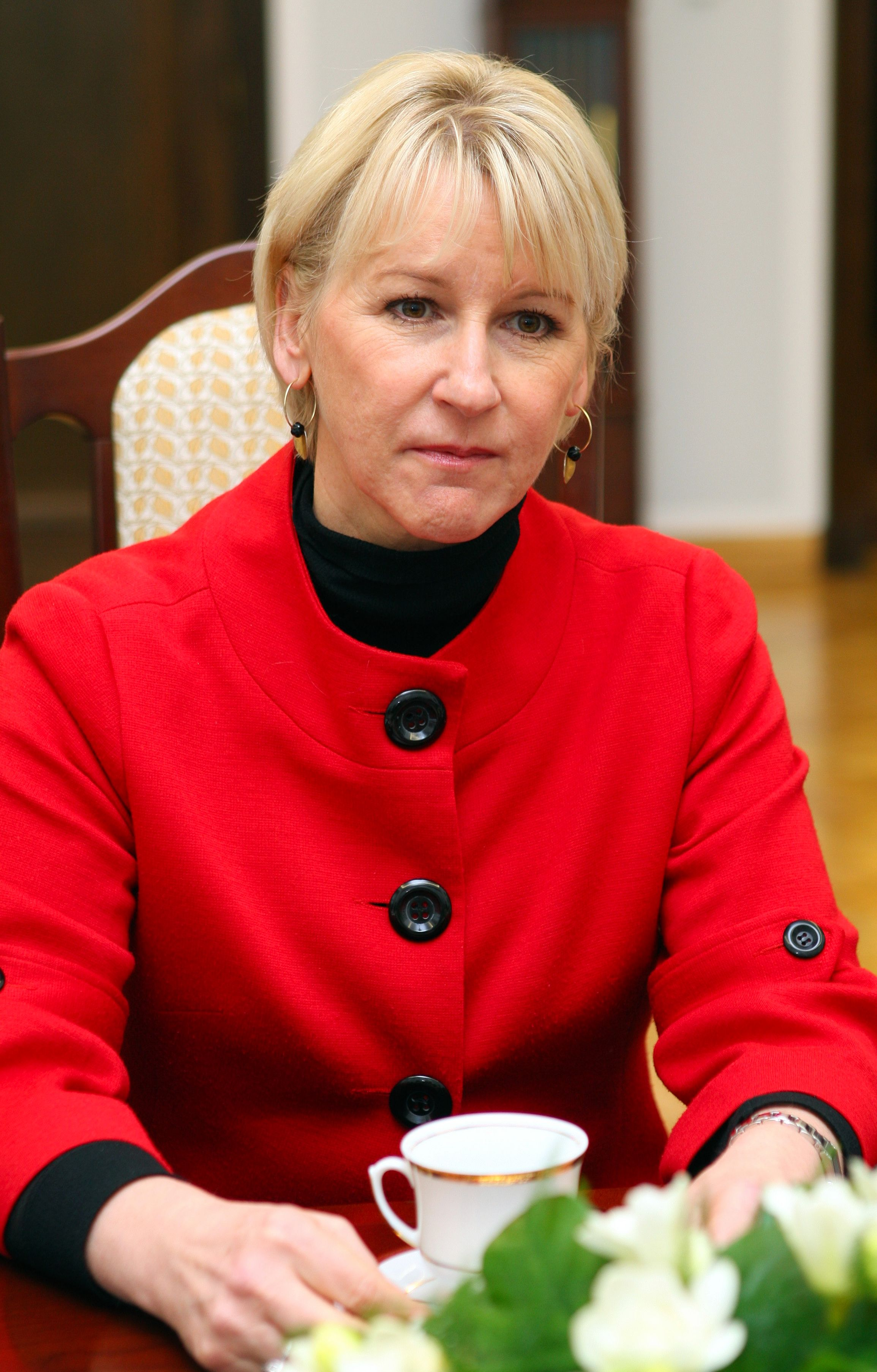 Vice president of the European Commission Margot Wallström in the Polish Senate